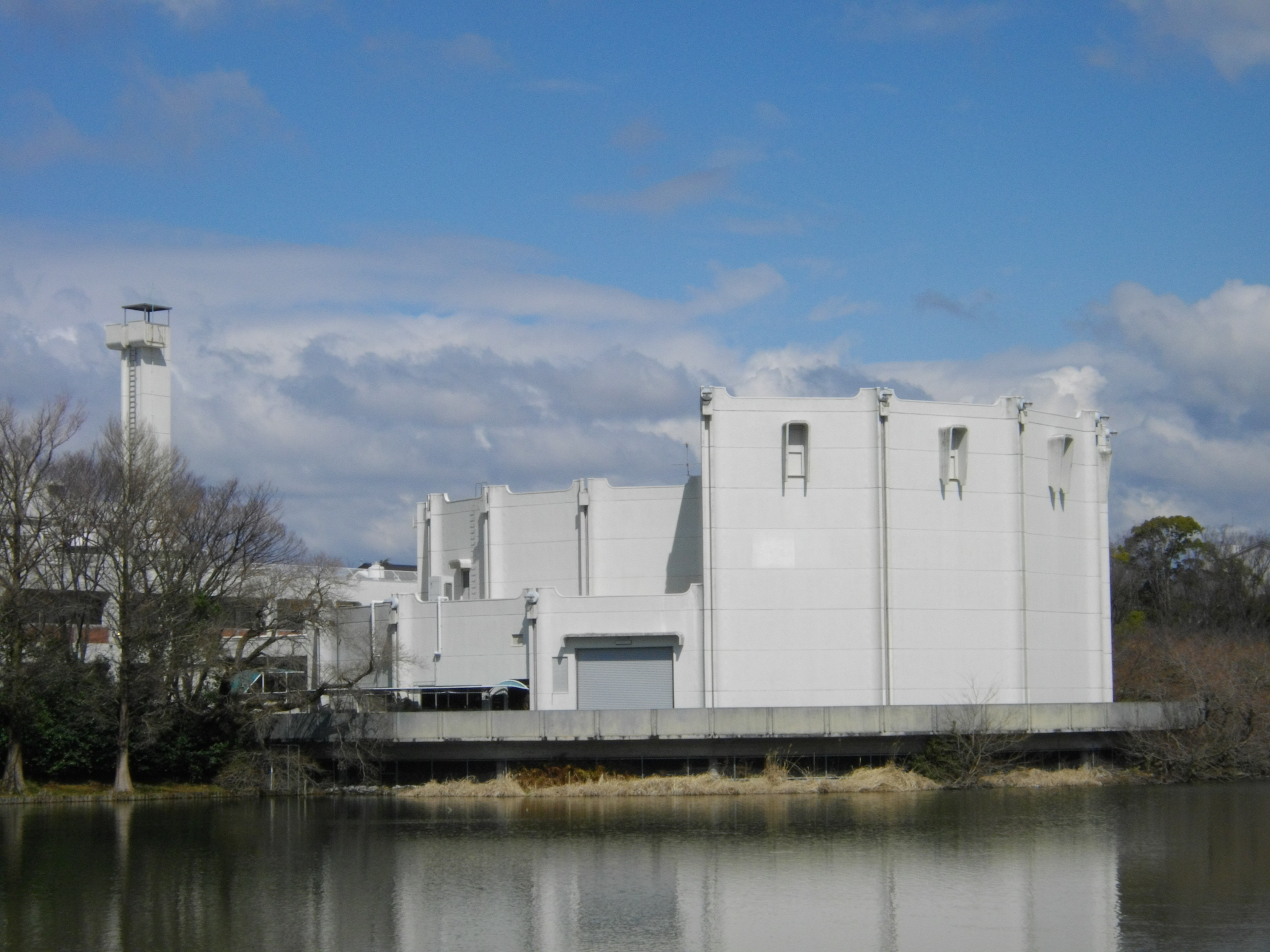 Toyohashi Cultural Hall